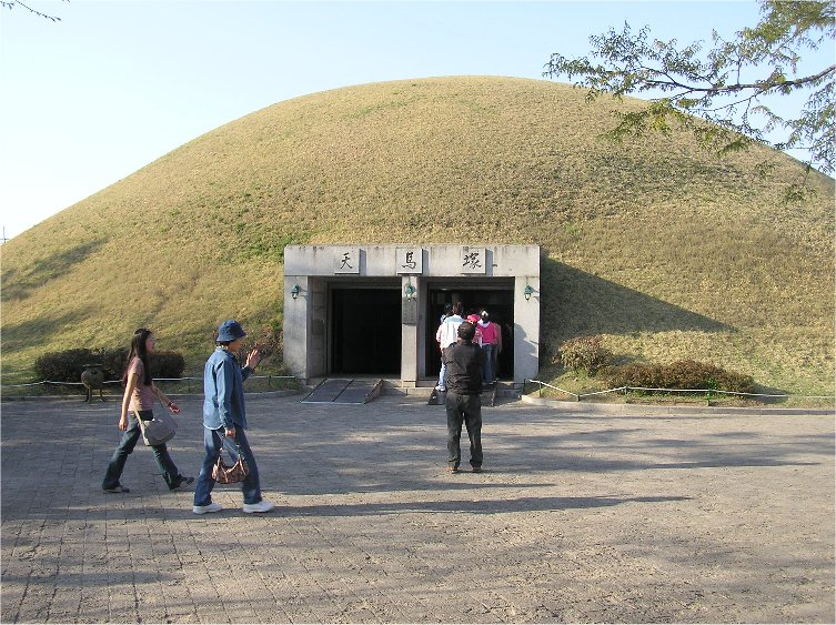 The entrance to the Cheonmachong (Heavenly Horse Tomb).